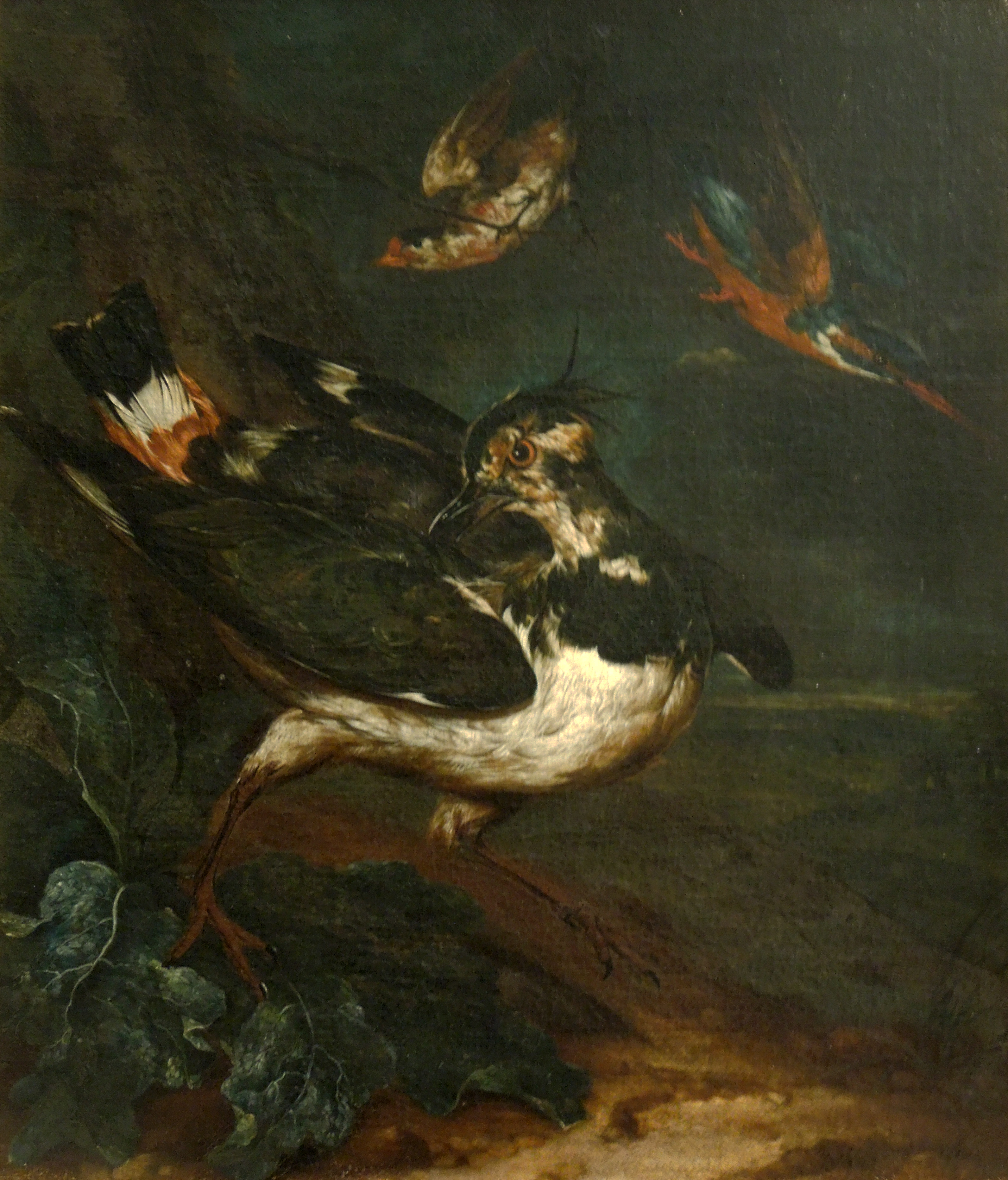 Philipp Ferdinand de Hamilton - Lapwing, Goldfinch and Kingfischer, circa 1700, oil on canvas